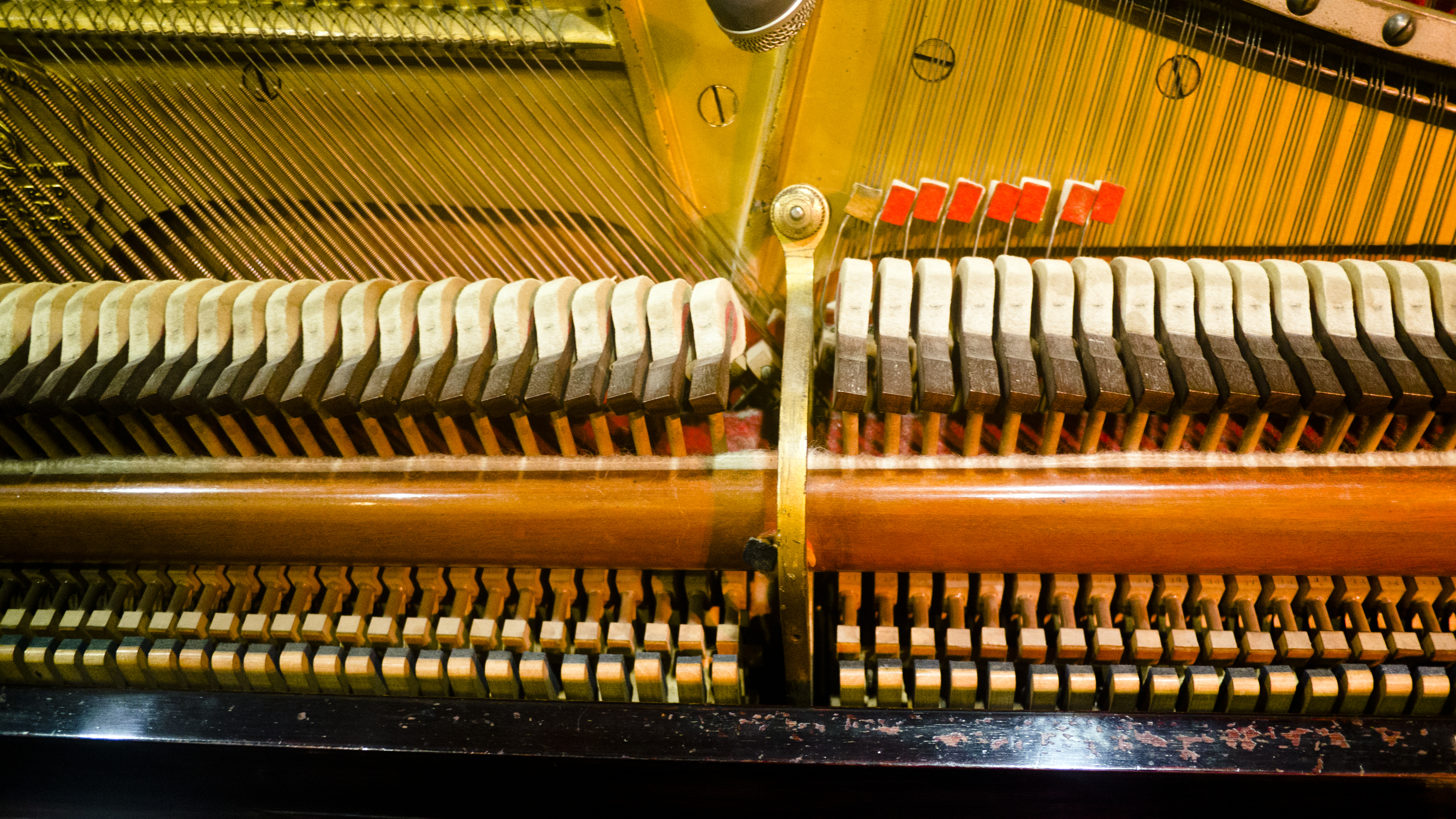 Abbey Road Studios opens its doors to the public, 80th Anniversary, March 9, 2012[1] the pianos in which many Beatles songs were recorded, included is a day in the life. Steinway Vertegrand "Mrs. Mills" piano (manufactured in Hamburg, Germany in 1905)